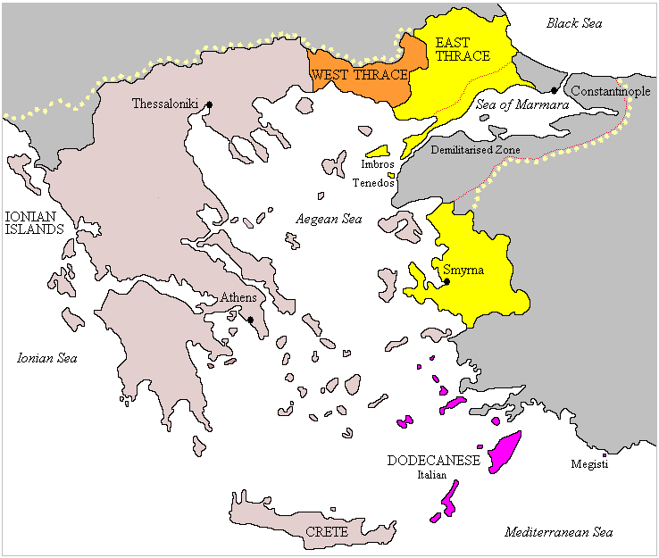 Map illustrating the Partitioning of the Ottoman Empire.